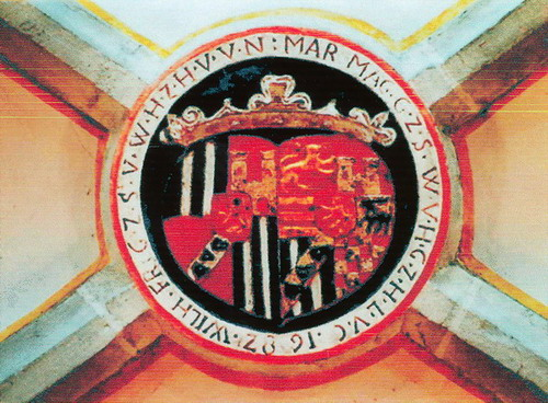 the coat of arms of Homburg in the cover of the Ev. church in Nümbrecht from the year 1682. - das Wappen von Homburg an der Decke der Ev. Kirche in Nümbrecht aus dem Jahre 1682. Author This picture was made available kindly by Mr. Söhn - for Wikipedia* Licence GNU FDL and CC-by-SA